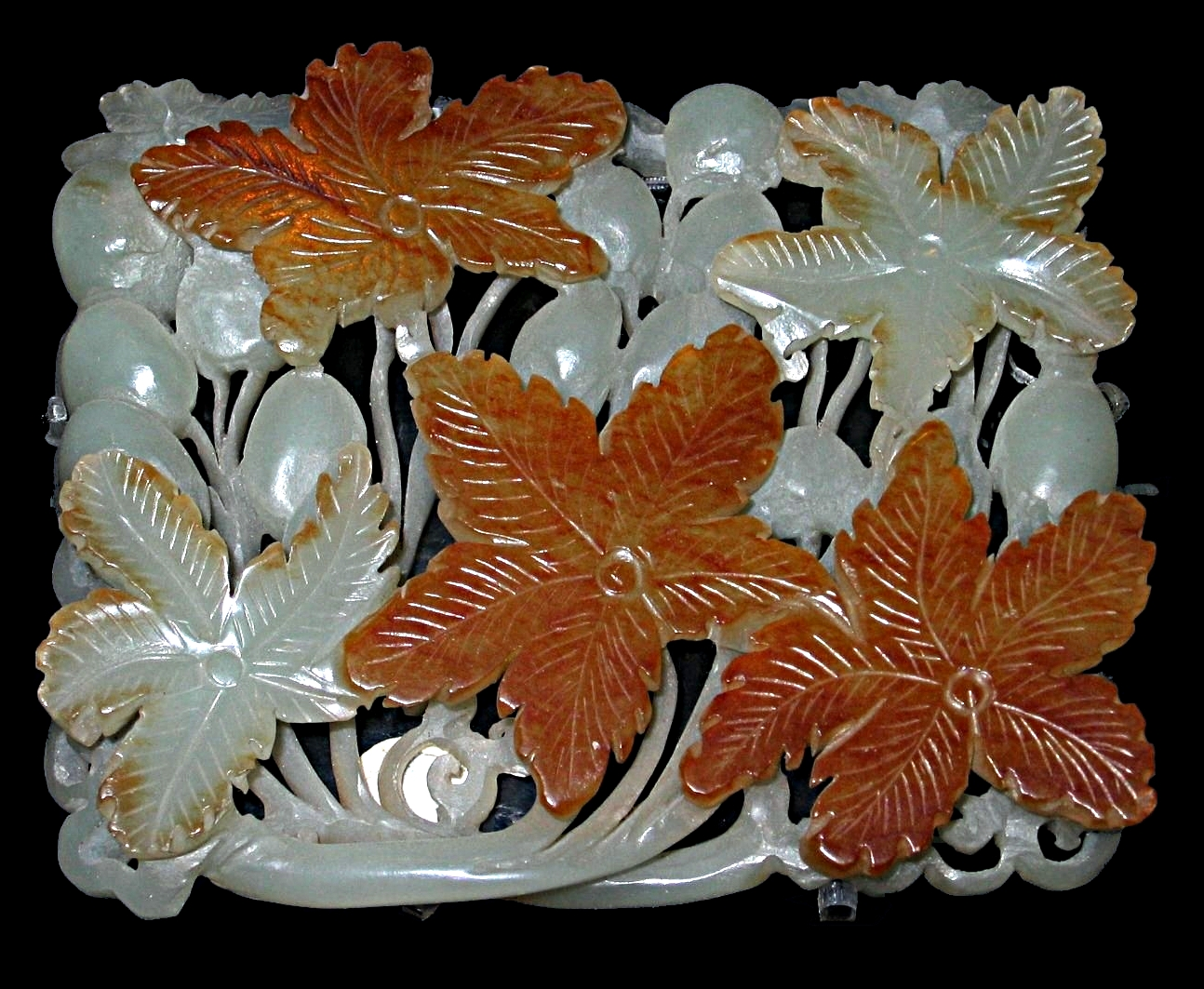 Photograph of a jade ornament in the shape of grapes from the Jin Dynasty (1115–1234) on display in the Shanghai Museum, Shanghai, China.